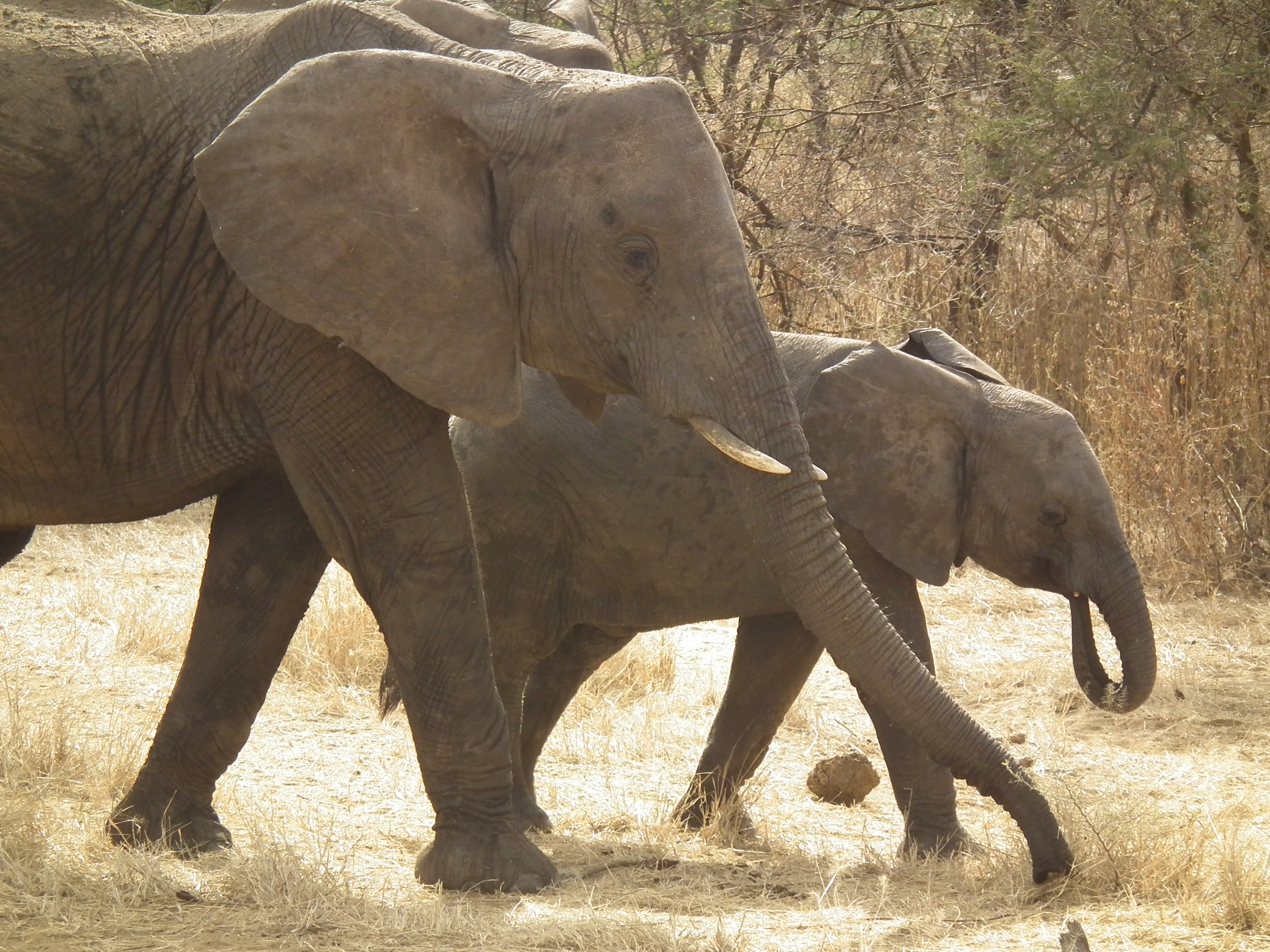 African elephant, Loxodonta, picture taken in Tanzania